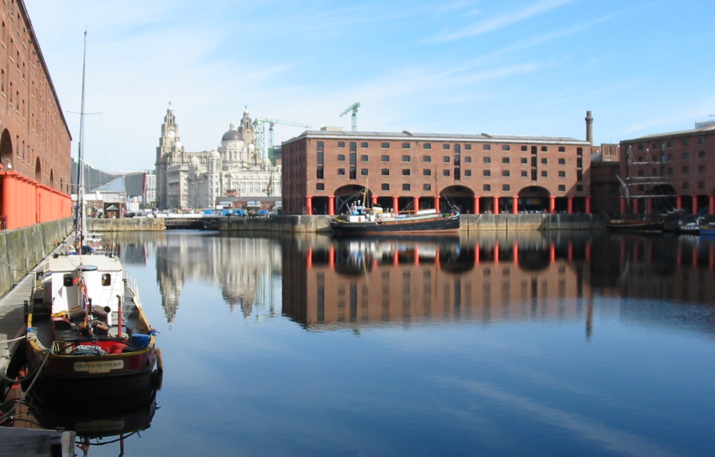 Nrf: Liverpool